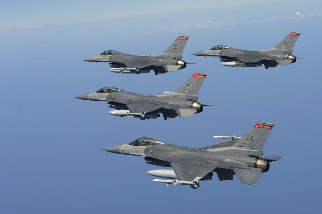 A formation of Four U.S. Air Force F-16 Vipers from the 177th Fighter Wing N.J. Air National Guard flies a training mission Aug. 18, 2009 near Atlantic City, N.J.. The 177th conducted training missions in preparation for the Atlantic city Air Show. (U.S. Air Force photo by: Staff Sgt. Jason Robertson)